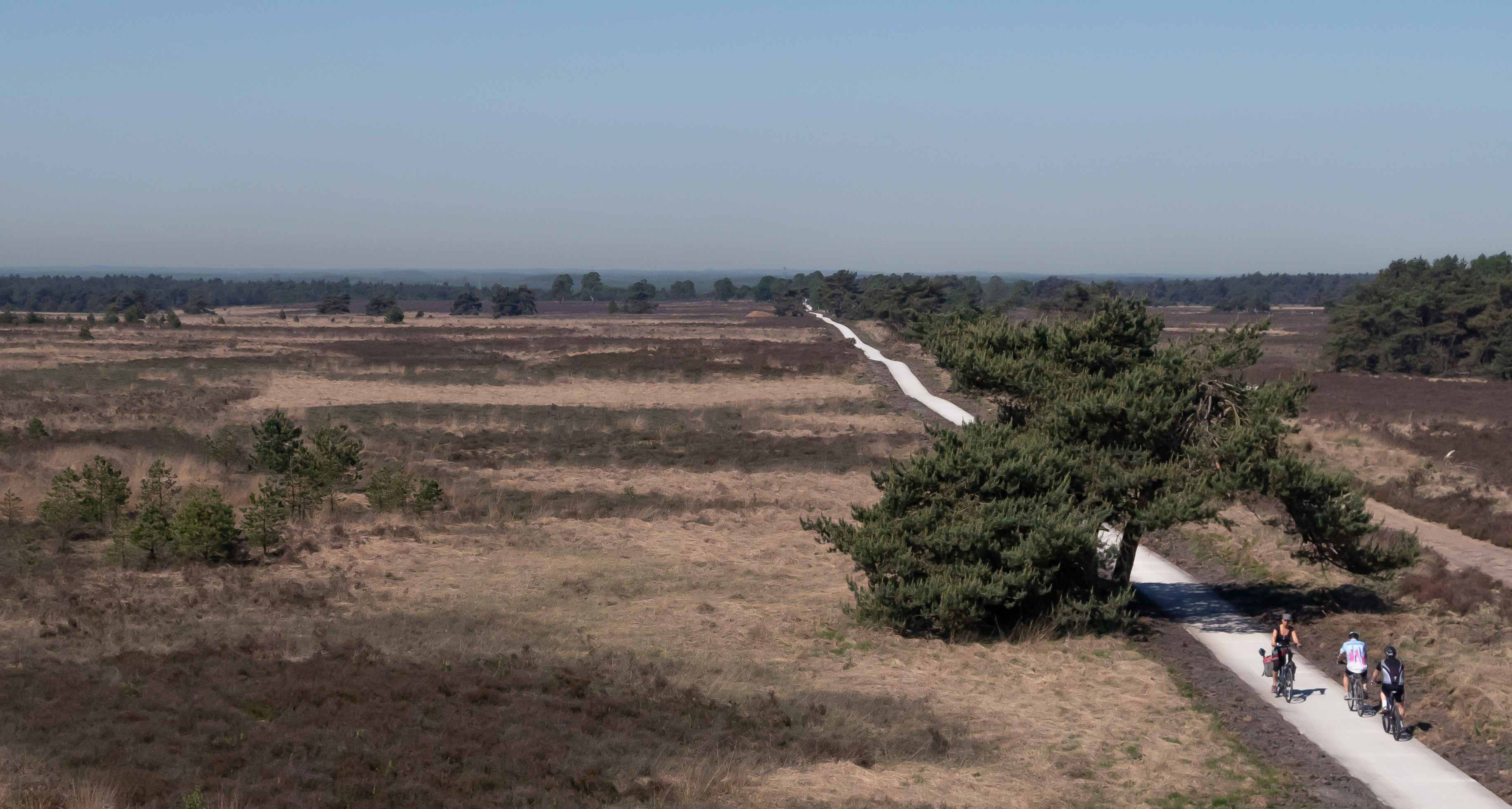 Rozendaal, view from the observation tower (de Brandtoren) to the Rozendaalse Veld